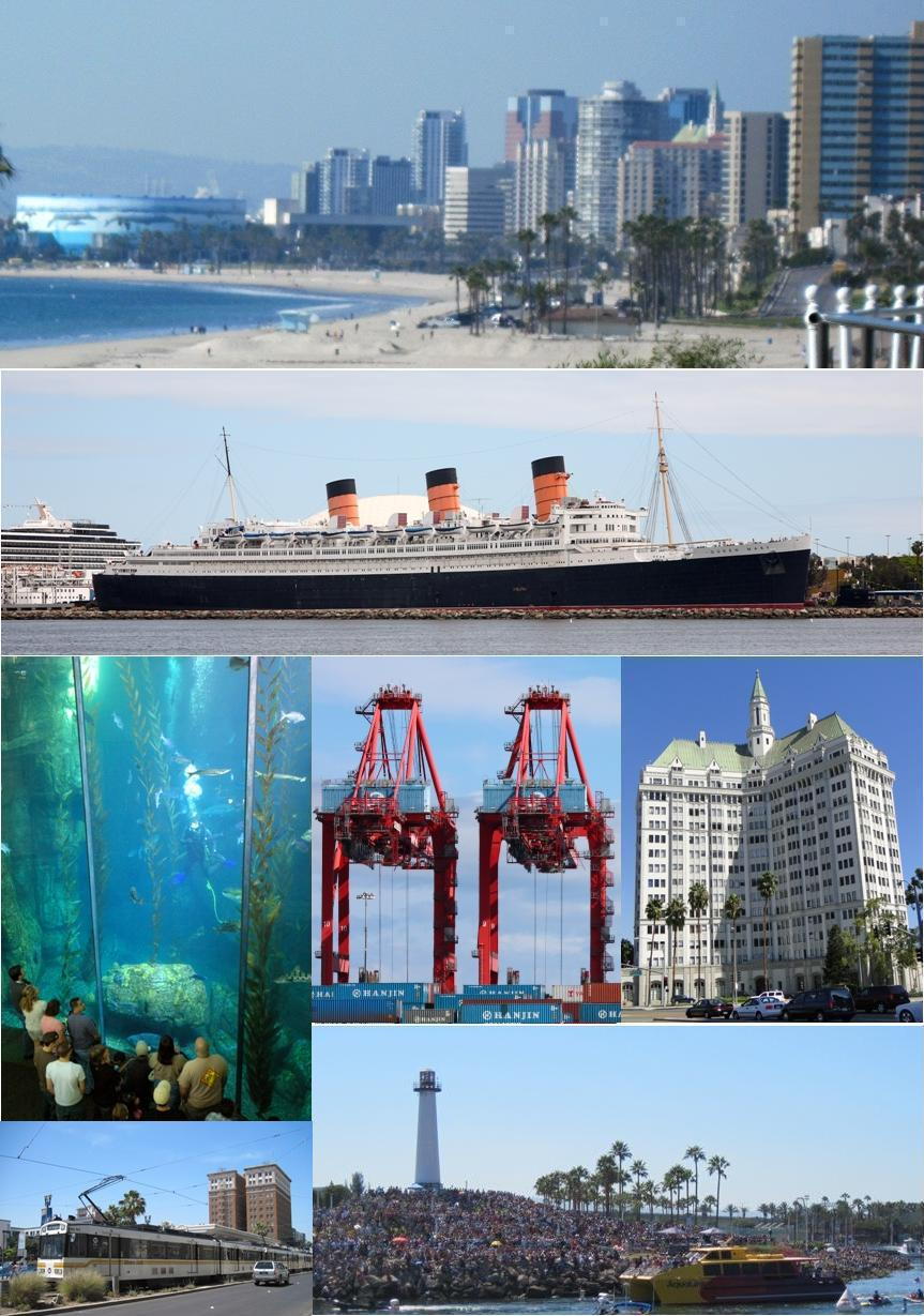 Montage of Long Beach pictures that I have found on on Commons and that I have taken